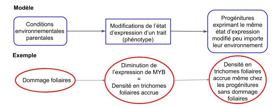 simple model illustrating epigenetic heredity in plants